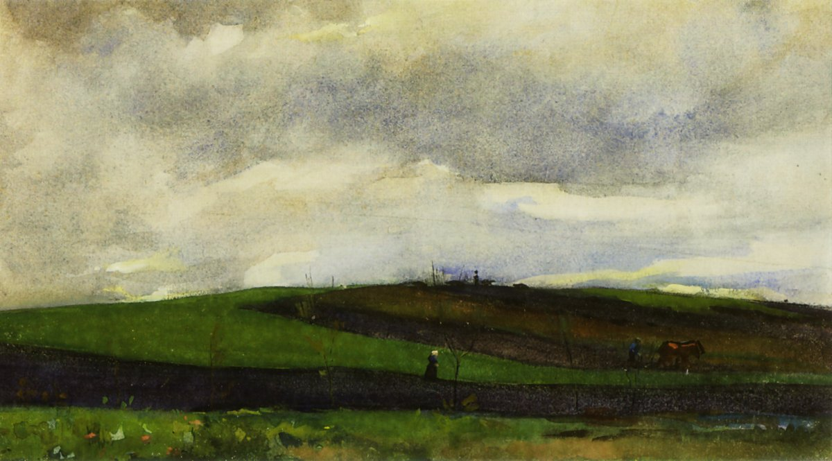 Plowing farmer in undulating landscape watercolour and charcoal 23 cm x 41.5 cm